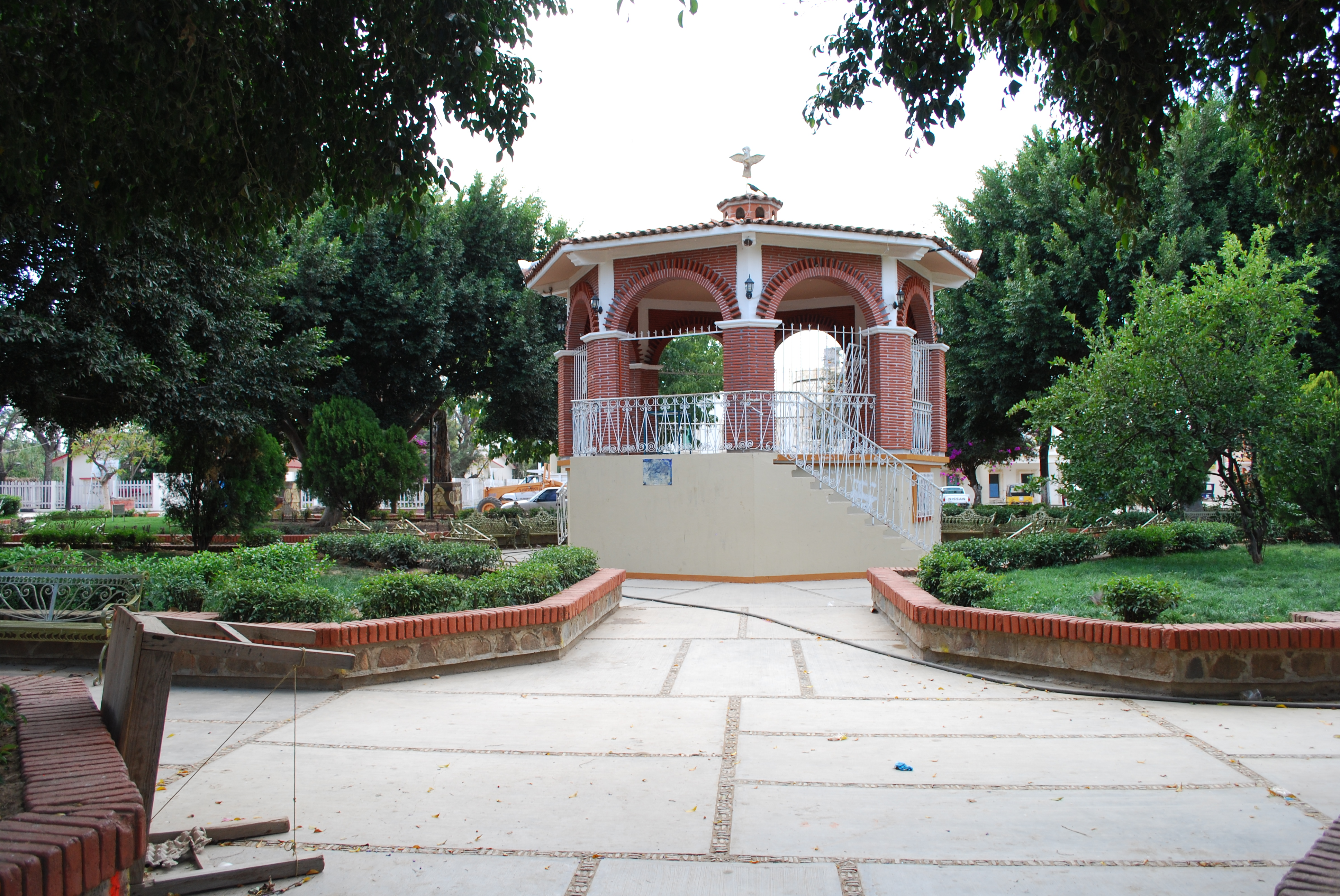 Kiosk in the central plaza of San Antonino Castillo Velasco, Oaxaca, Mexico